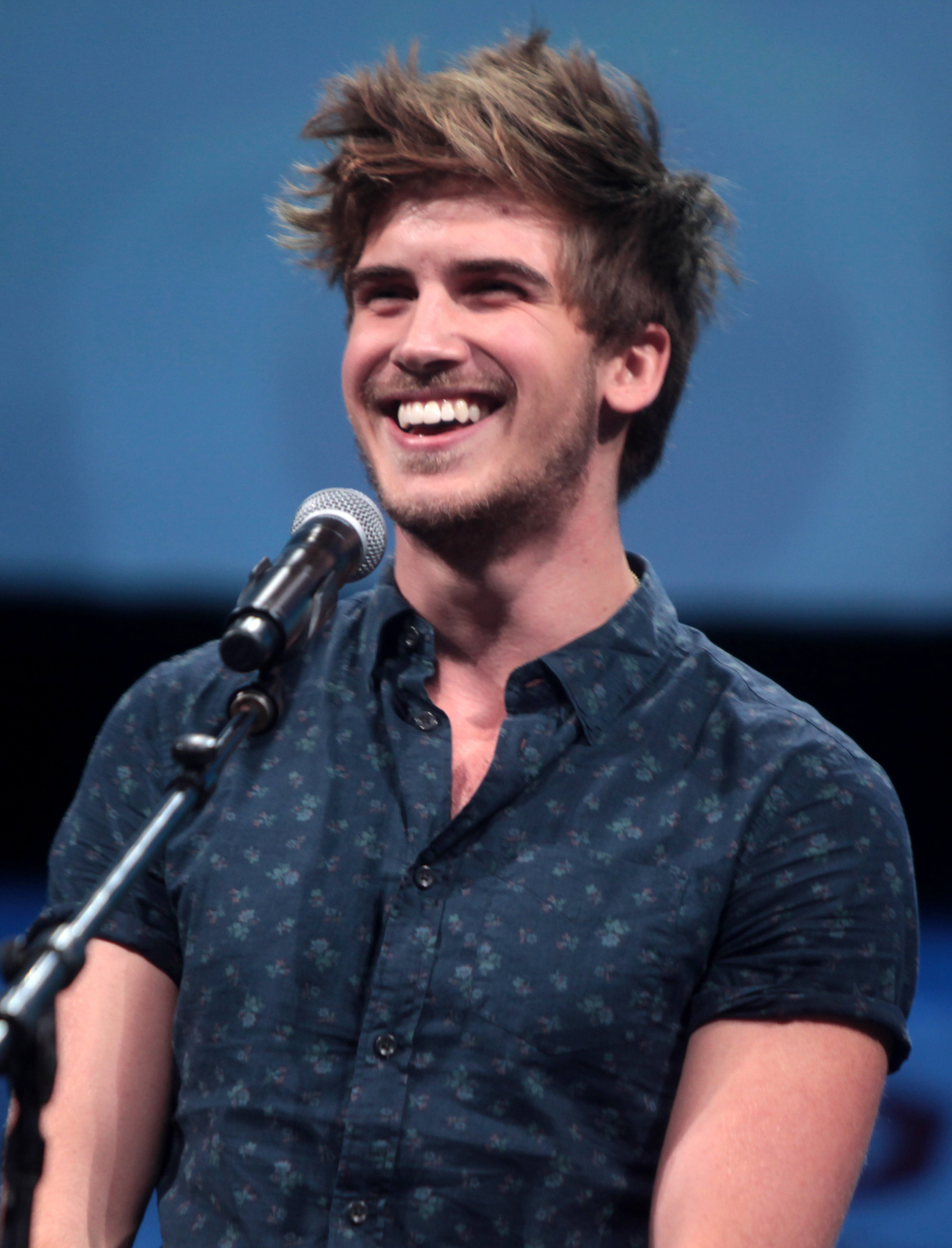 Joey Graceffa speaking at the 2014 VidCon on June 28, 2014.